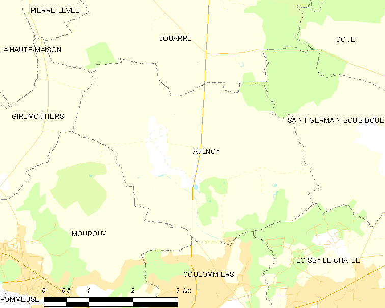 Map of French municipality Aulnoy